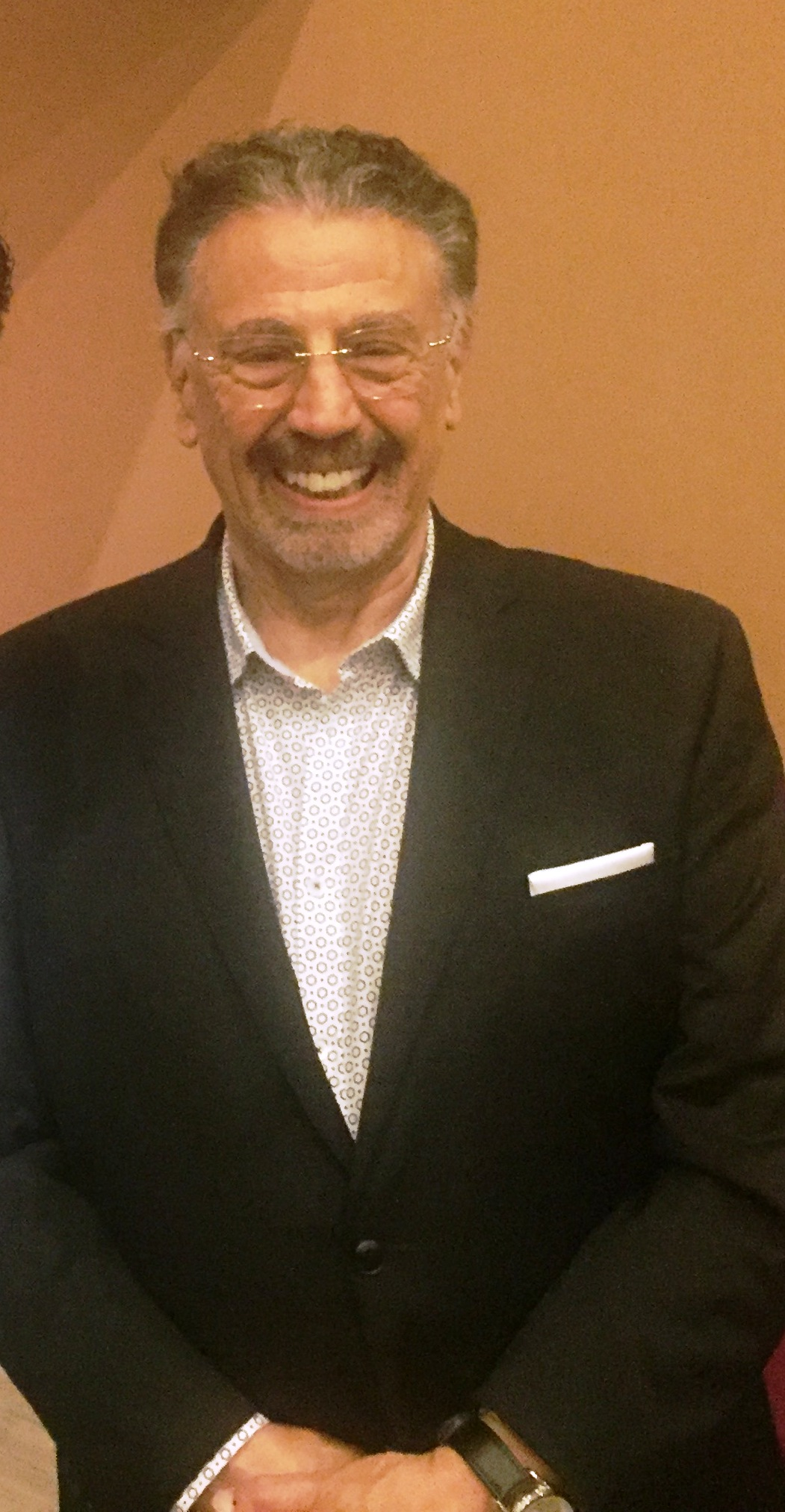 Mexican film director Alfonso Arau at the Cineteca Nacional Tijuana following a special screening of his film "Como Agua Para Chocolate" in 2016.